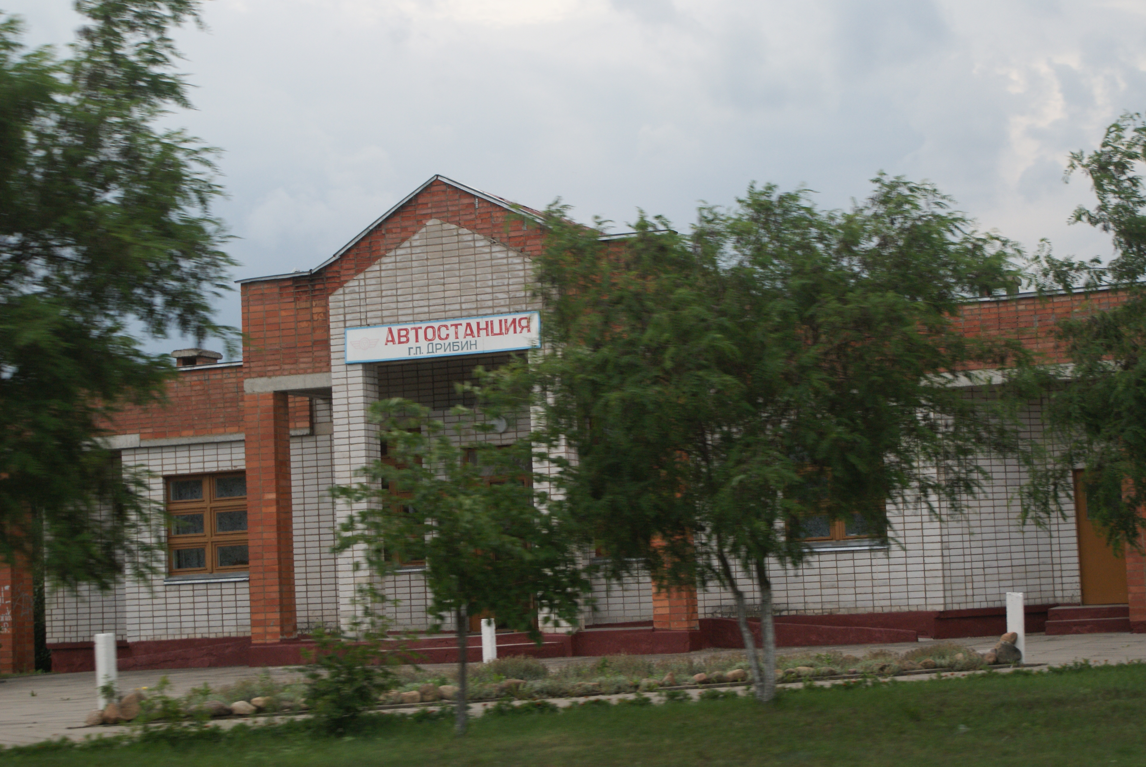 Bus station in Dribin